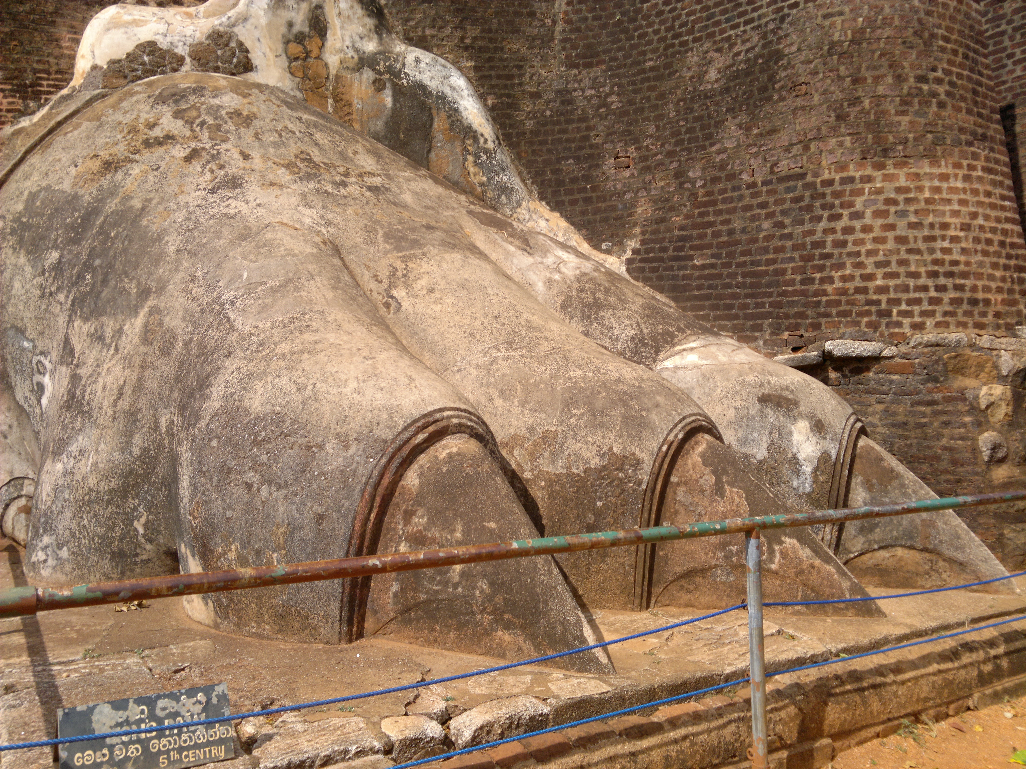 Lions Paw, Sigirya, Srilanka